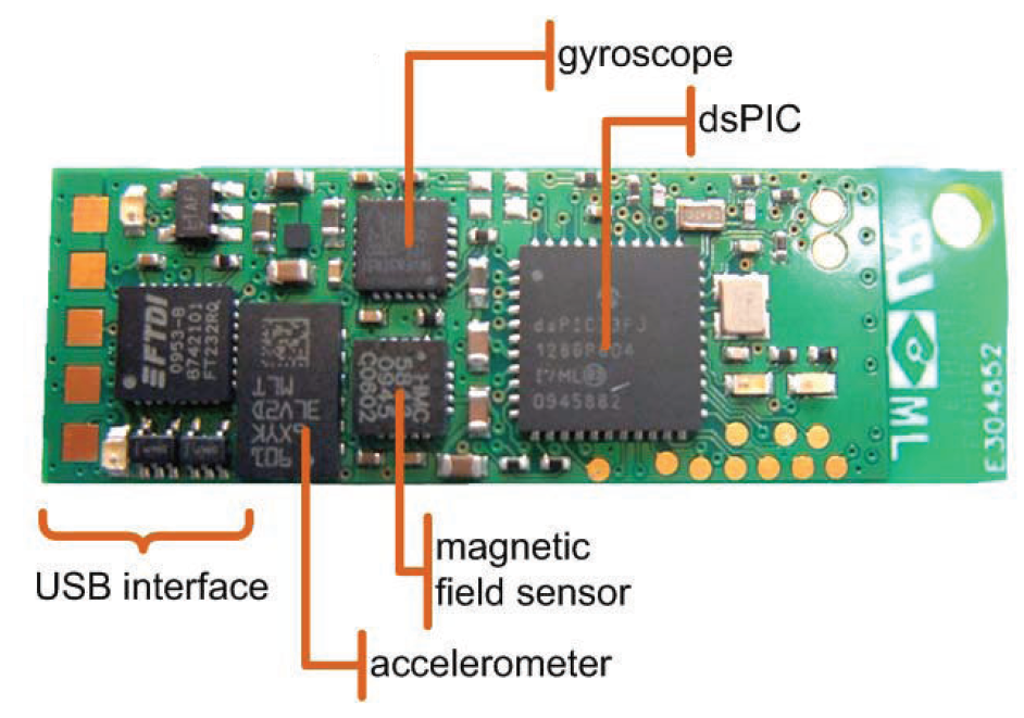 Printed circuit board of ETHOS, the ETH Orientation Sensor. The components of the miniaturized IMU and some other parts are annotated. cf. PIC_microcontroller#PIC24_and_dsPIC. Further information can be found here: [1]